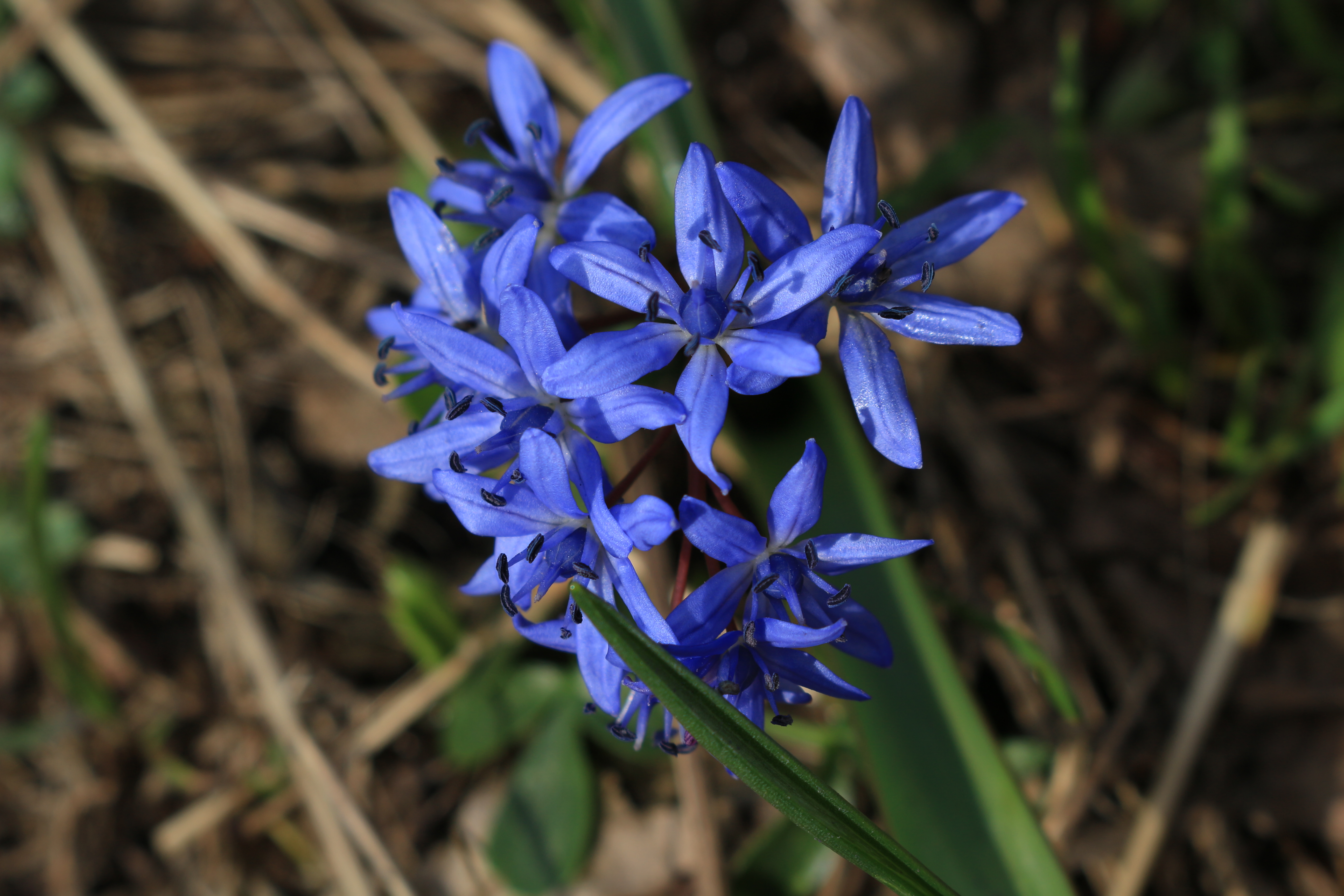 Scilla bifolia